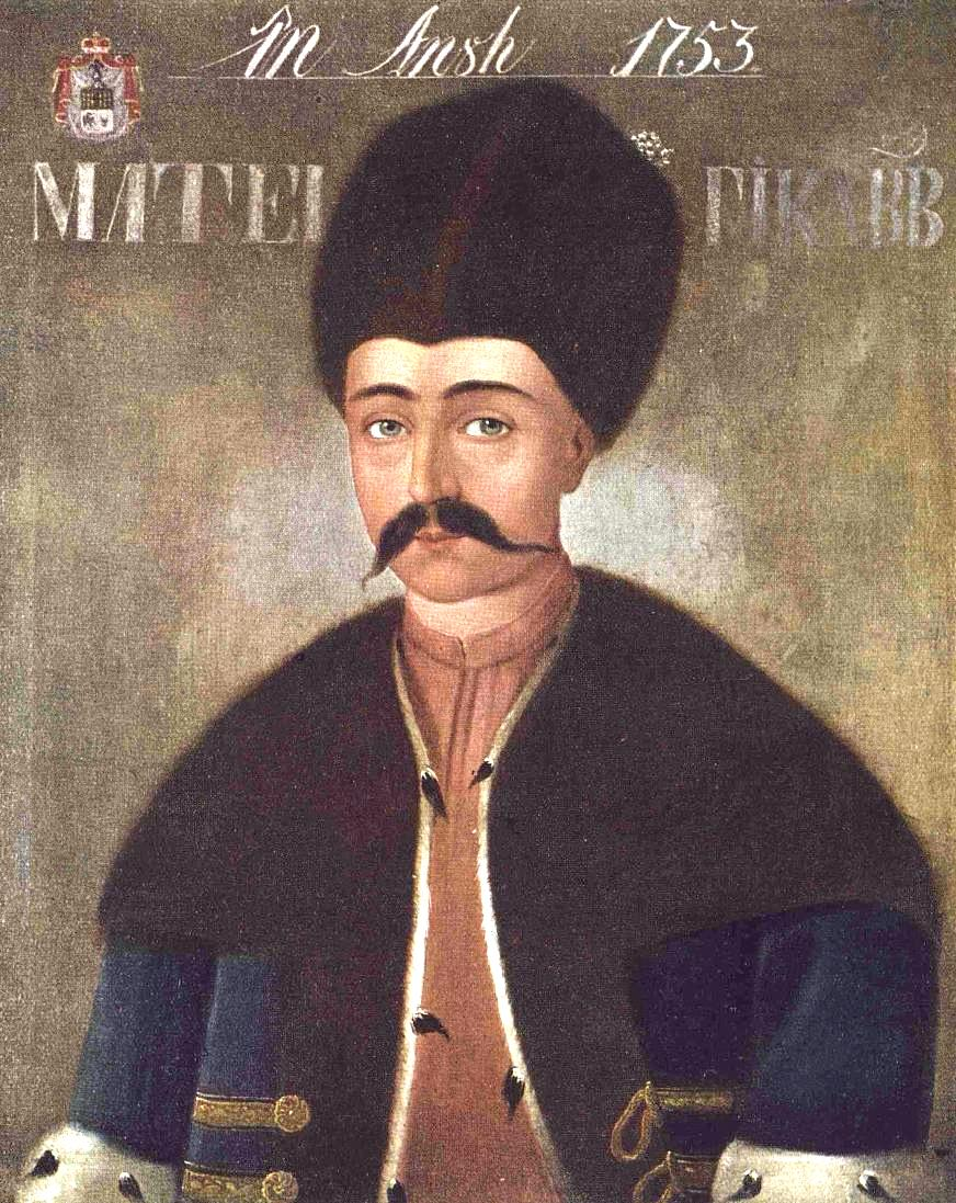 The Wallachian Prince Matei Ghica. Reproduction of a painting from Pantelimon Monastery, Bucharest, which is in turn a reconstruction of Ghica's likeness from a church fresco, dating back to 1753. The inscription headlining the painting is in a late variant of "transitional" Romanian Cyrillic, mixing Slavonic and Latin lettering. It reads: Матeі Гіка Вв în AnȢл 1753 ("Matei Gika V[oi]v[ode] in the Year 1753").